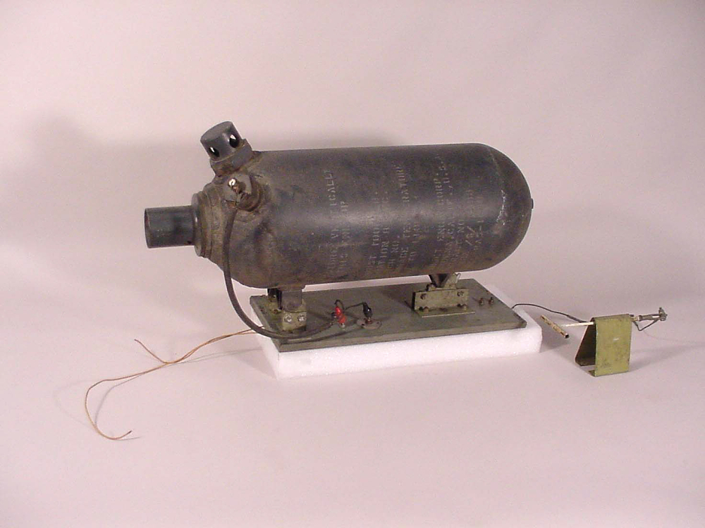 Solid fuel jet-assisted takeoff (JATO) unit, manufactured by the Aerojet Engineering Corporation, donated to the Smithsonian Institute by the U.S. Naval Academy in 1951.